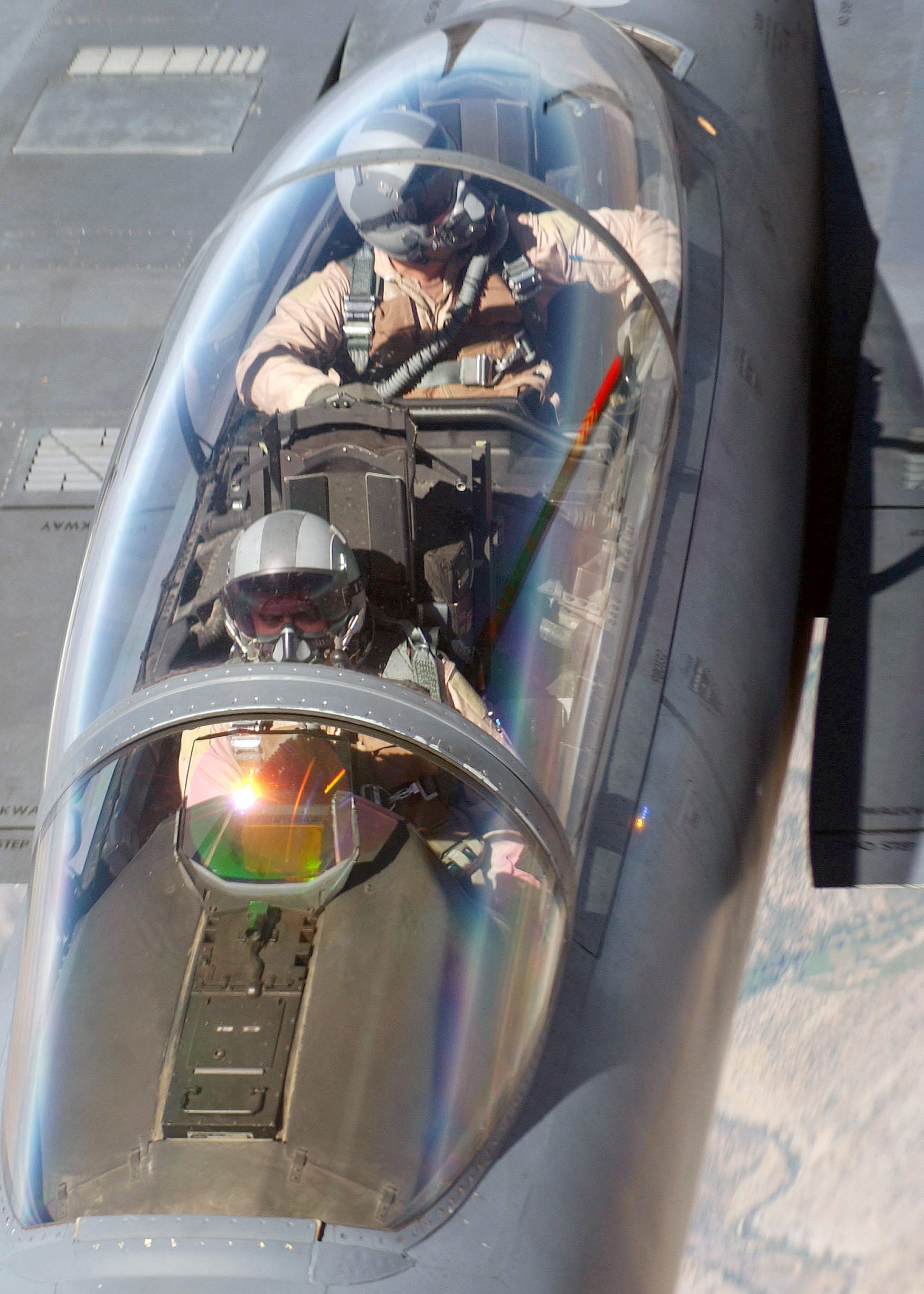 US Air Force (USAF) Captain (CPT) Joseph Cuatero (Pilot), and USAF Major (MAJ) Gary Burg (Weapons System Officer), pictured in the cockpit of their USAF F-15E Strike Eagle aircraft during a refueling mission flown in support of Operation NORTHERN WATCH.